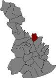 Location of el Papiol in Baix Llobregat